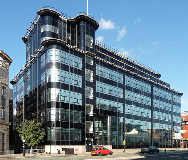 Owen Williams, 1939 modernist art deco. Grade II* listed. Front façade visible from Great Ancoats Street.